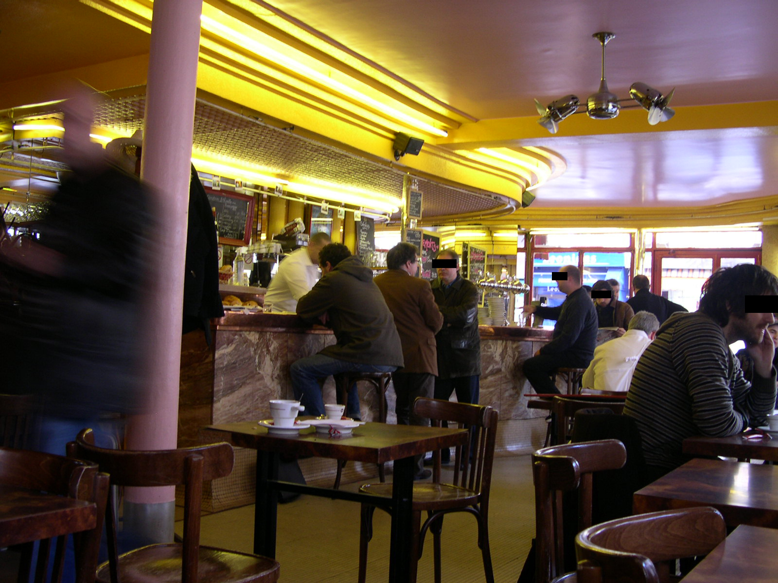 Inside the Café des 2 Moulins (Two Windmills Cafe) in Paris. Patron faces blacked out to respect anonymity.